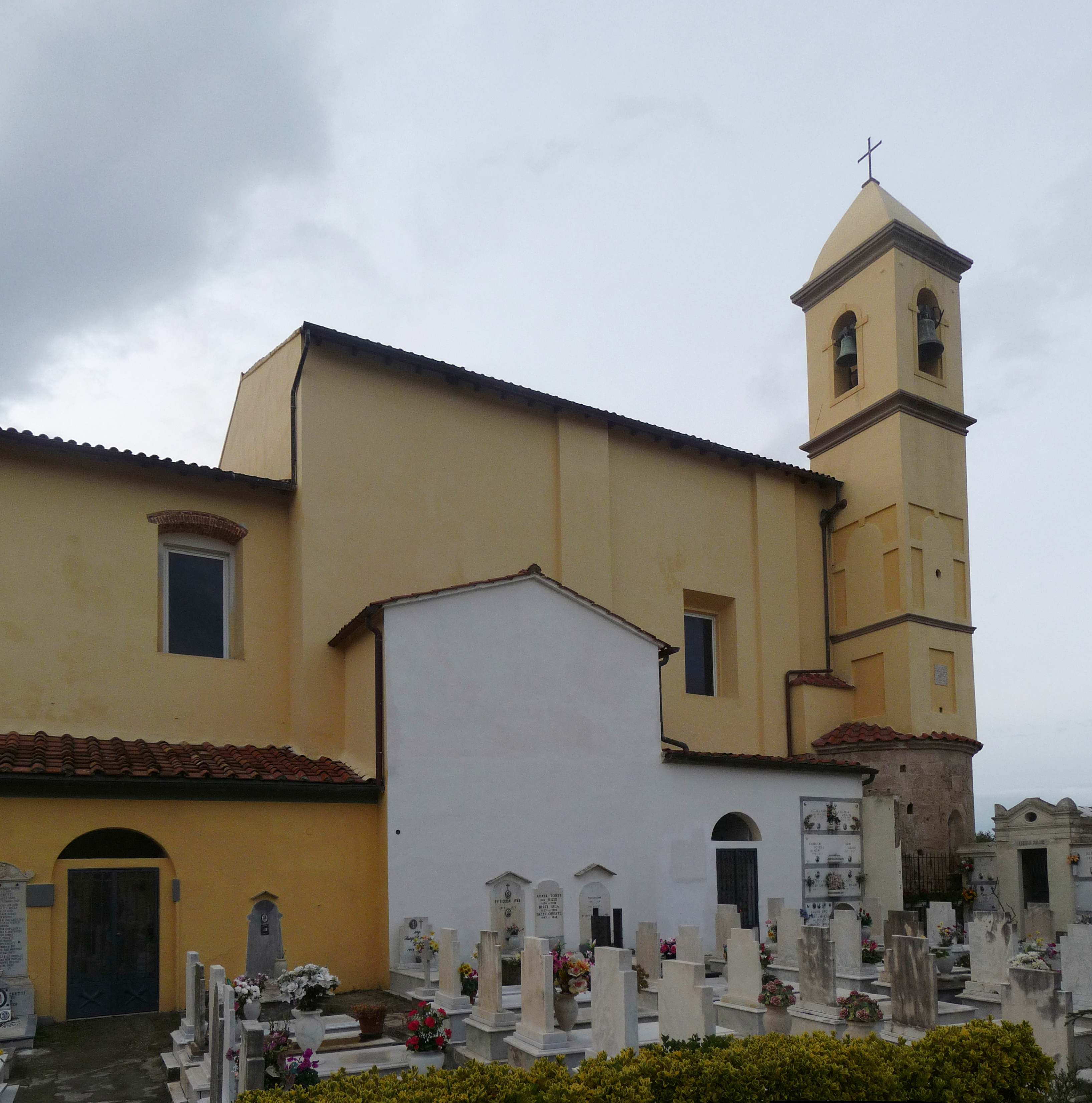 Church Chiesa di San Martino, Salviano, Livorno, Italy